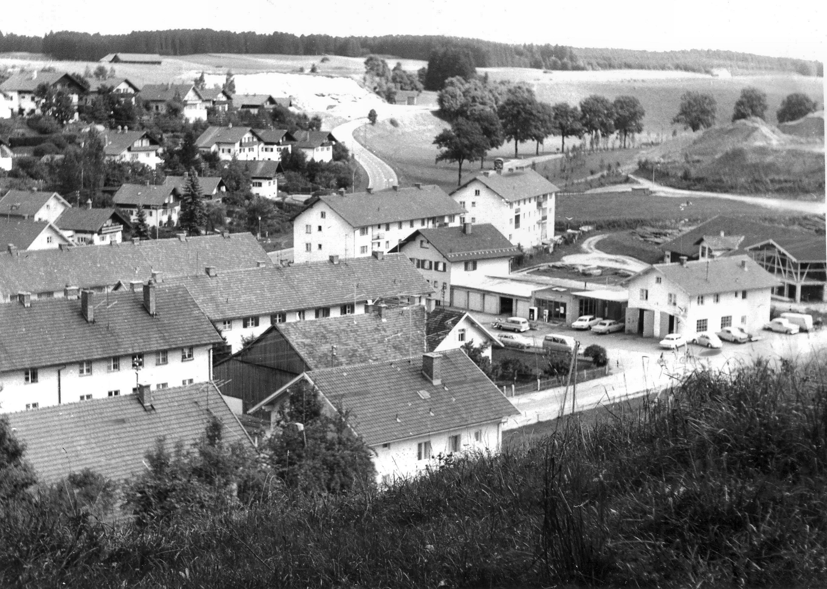 Marktoberdorf, seen from the Buchel (1968)